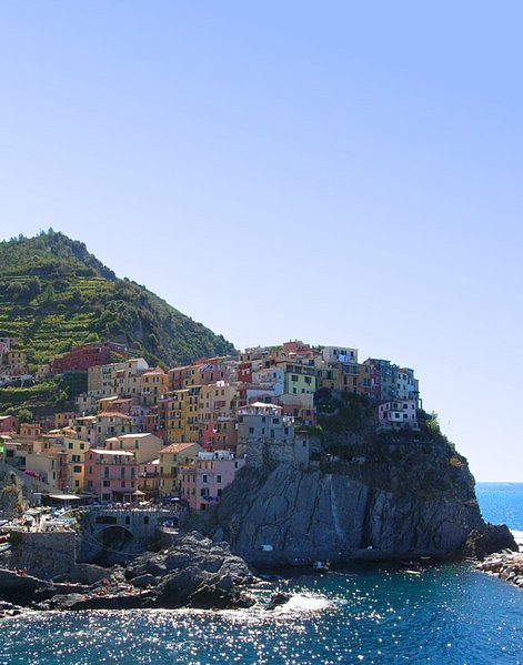 Cinque Terre: Manarola Picture taken by user:Idéfix, august 2005